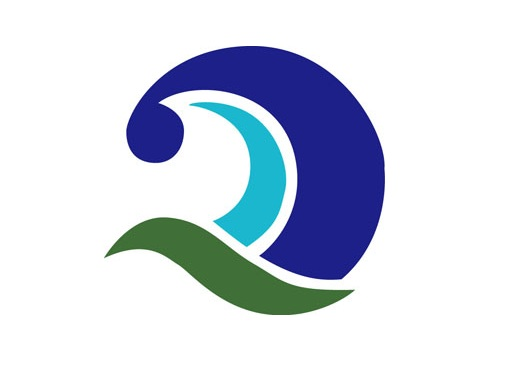 Flag of Kumano Mie